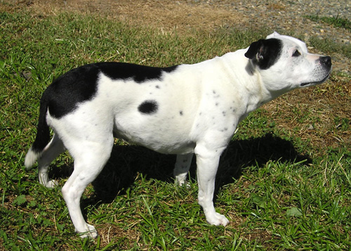 Staffordshire Bull Terrier Cornerstone's Ain't Misbehavin' (Tori), CL-3, MX, MXJ, AXP, AJP (dog agility titles), CGC (Canine Good Citizen title). A 12-year-old friendly and cheerful black-and-white Staffie who is also a Certified Therapy Dog. Taken by Elf